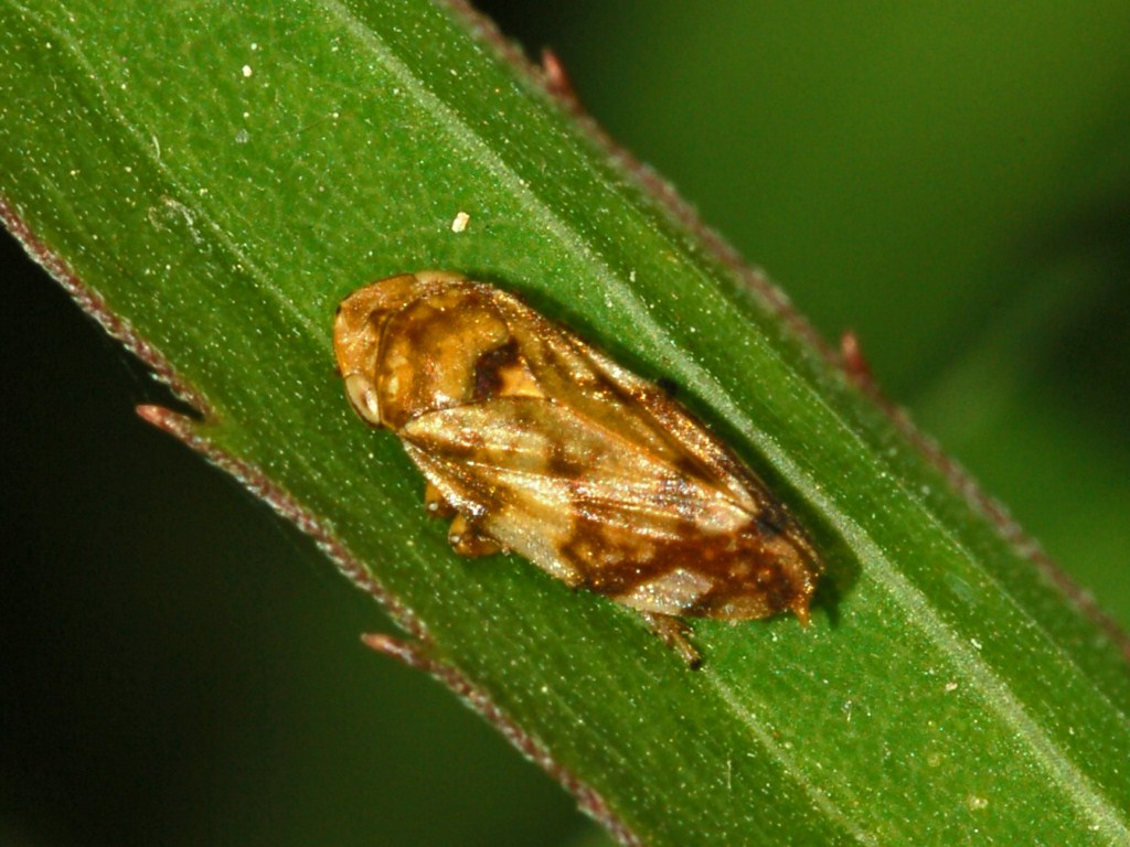 Philaenus spumarius